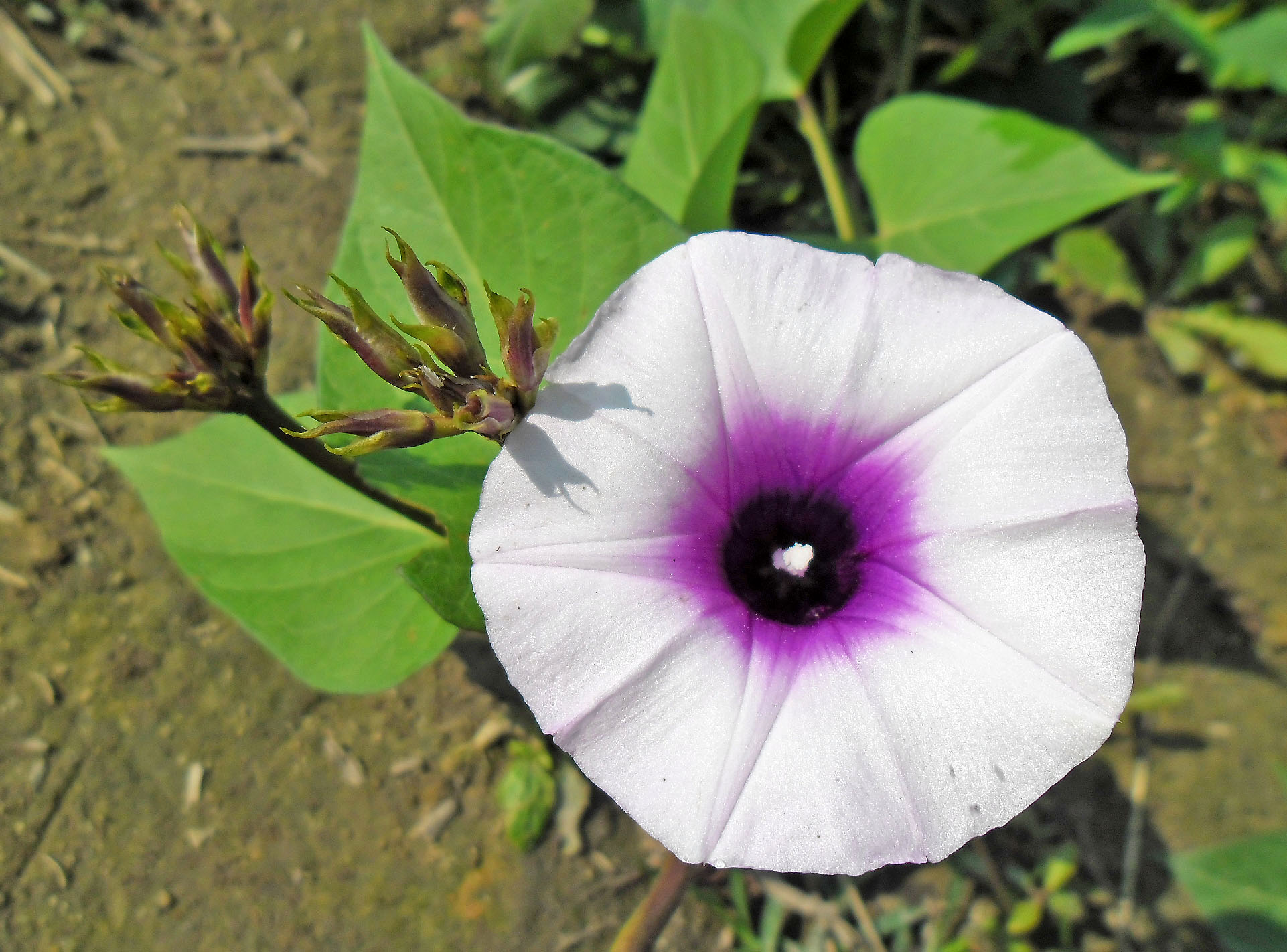 On November 6th of 2012, Earth100's Puple Sweet Potato Variety plant was vigorously flowering every day, with each flower lasting for only 12 hours or so. Earth100 selected one of the flowers